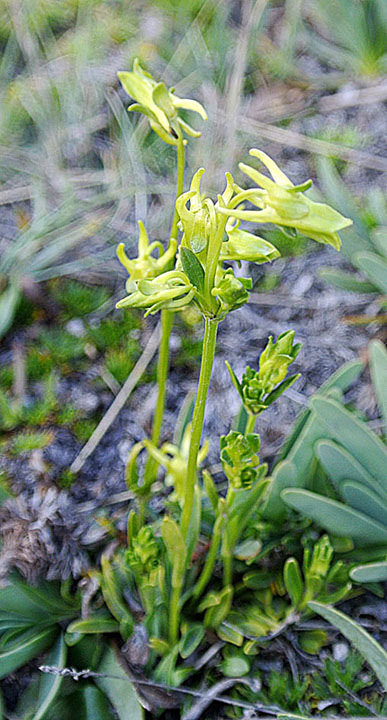 A species of the northern Andes, mainly Ecuador. Photo from the alpine zone of Chimborazo mountain.